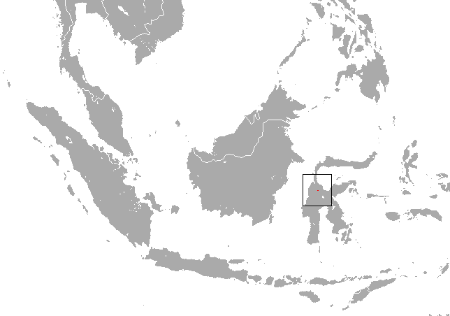 Linduan Rousette (Rousettus linduensis) range